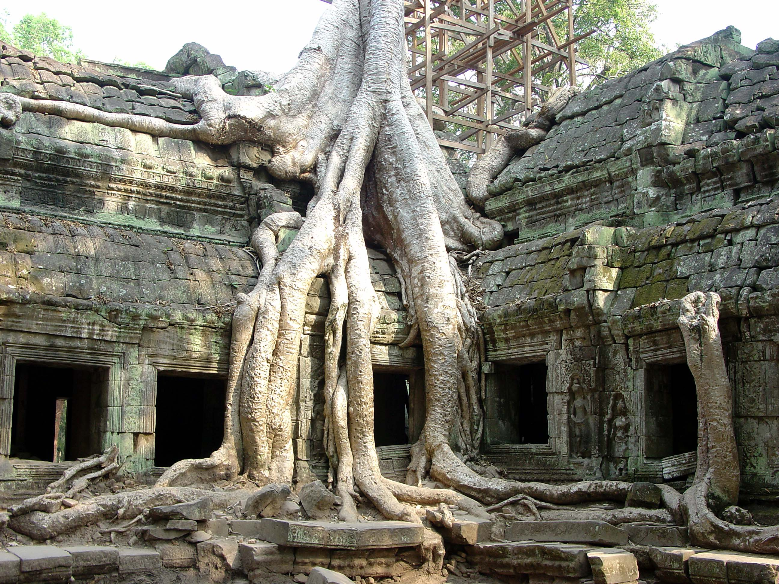 Ta Prohm is a double-moated royal monastery, dedicated by the Buddhist monarch Jayavarman VII for his mother. Along with Preah Khan, this is one of the few places at Angkor where the visitor can experience the site somewhat as it appeared in the 19th century, when it was first visited by European explorers. The tree seen in this photo is encroaching upon the northwest corner of Gopura IV East, which is the entrance to the temple just before the inner moat.